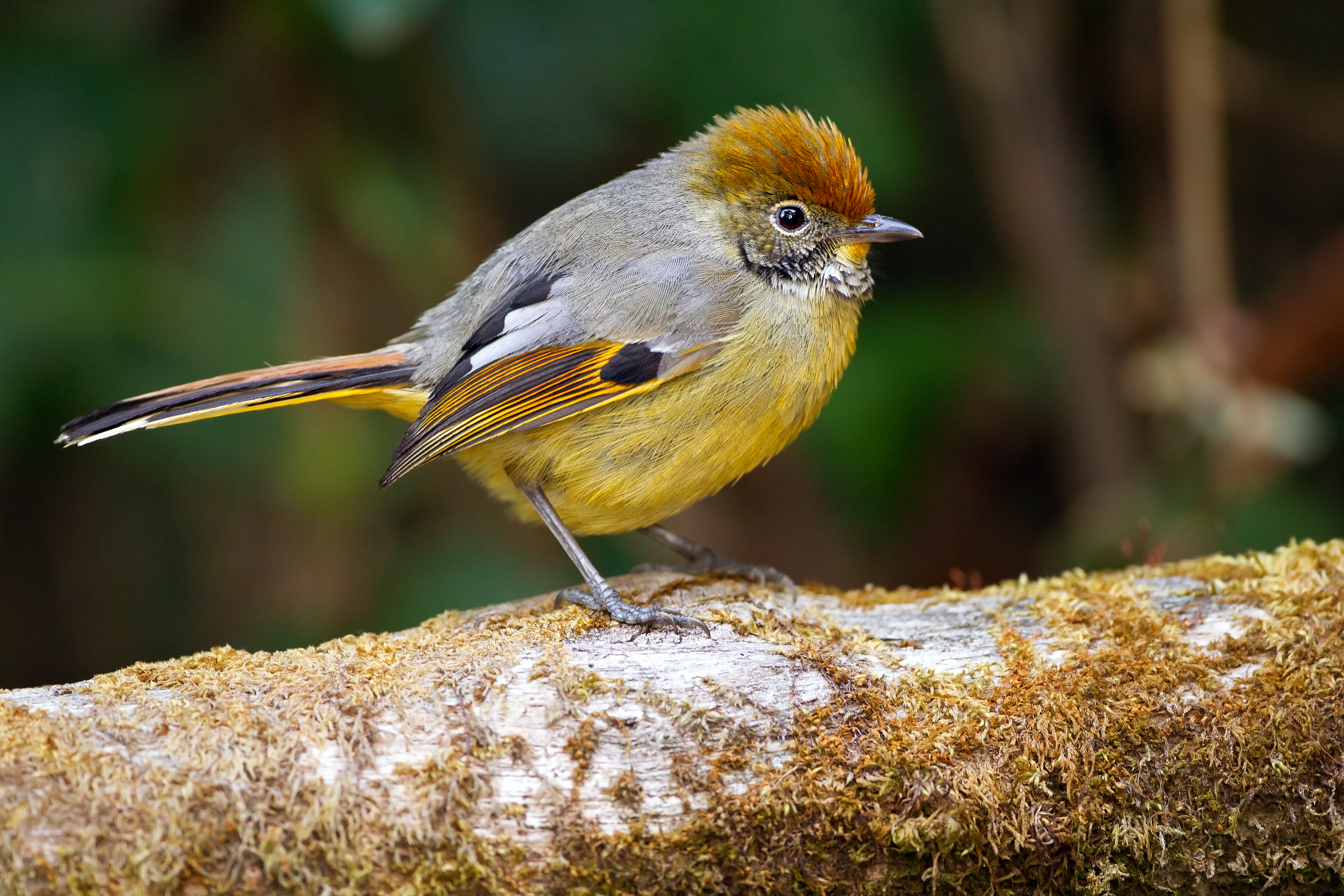 Chestnut-tailed Minla (Minla strigula), Doi Inthanon National Park, Chiang Mai, Thailand